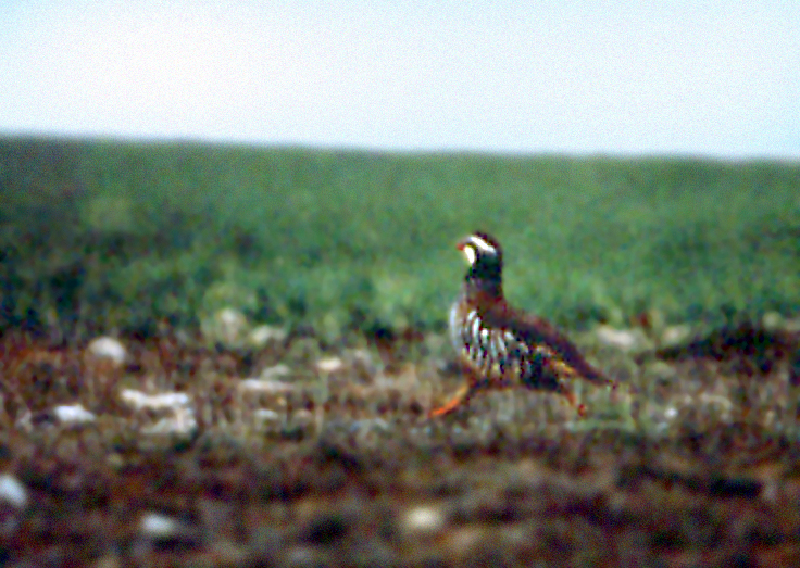 Spanish red-legged partridge running free in the fields of Castile (Alaejos, Valladolid, Spain)